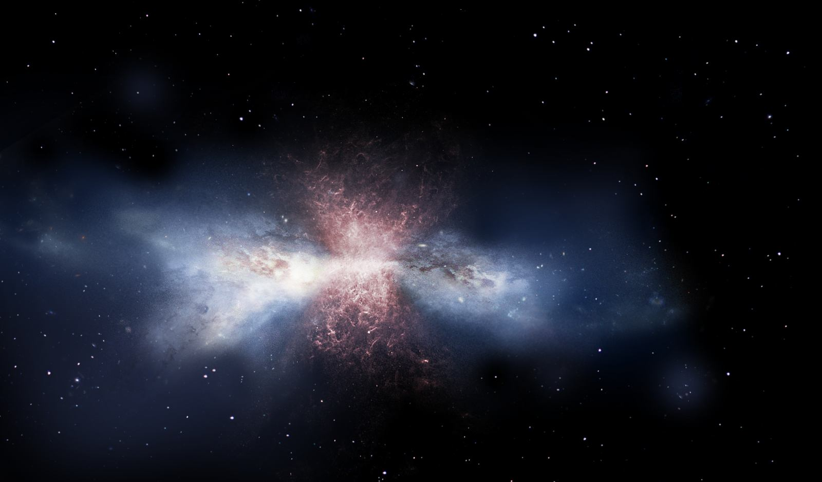 Astronomers studying the supermassive black hole at the centre of the galaxy IRAS F11119+3257 have found proof that the winds blowing from the black hole are sweeping away the host galaxys reservoir of raw star-building material.This finding was made using ESAs Herschel space observatory, together with the Suzaku X-ray astronomy satellite. Combining these data, the astronomers detected the winds being driven by the central black hole in X-rays, and their global effect, pushing the galactic gas away, at infrared wavelengths.This artists impression shows the outflow of molecular gas (red) in a galaxy hosting a supermassive black hole at its core.